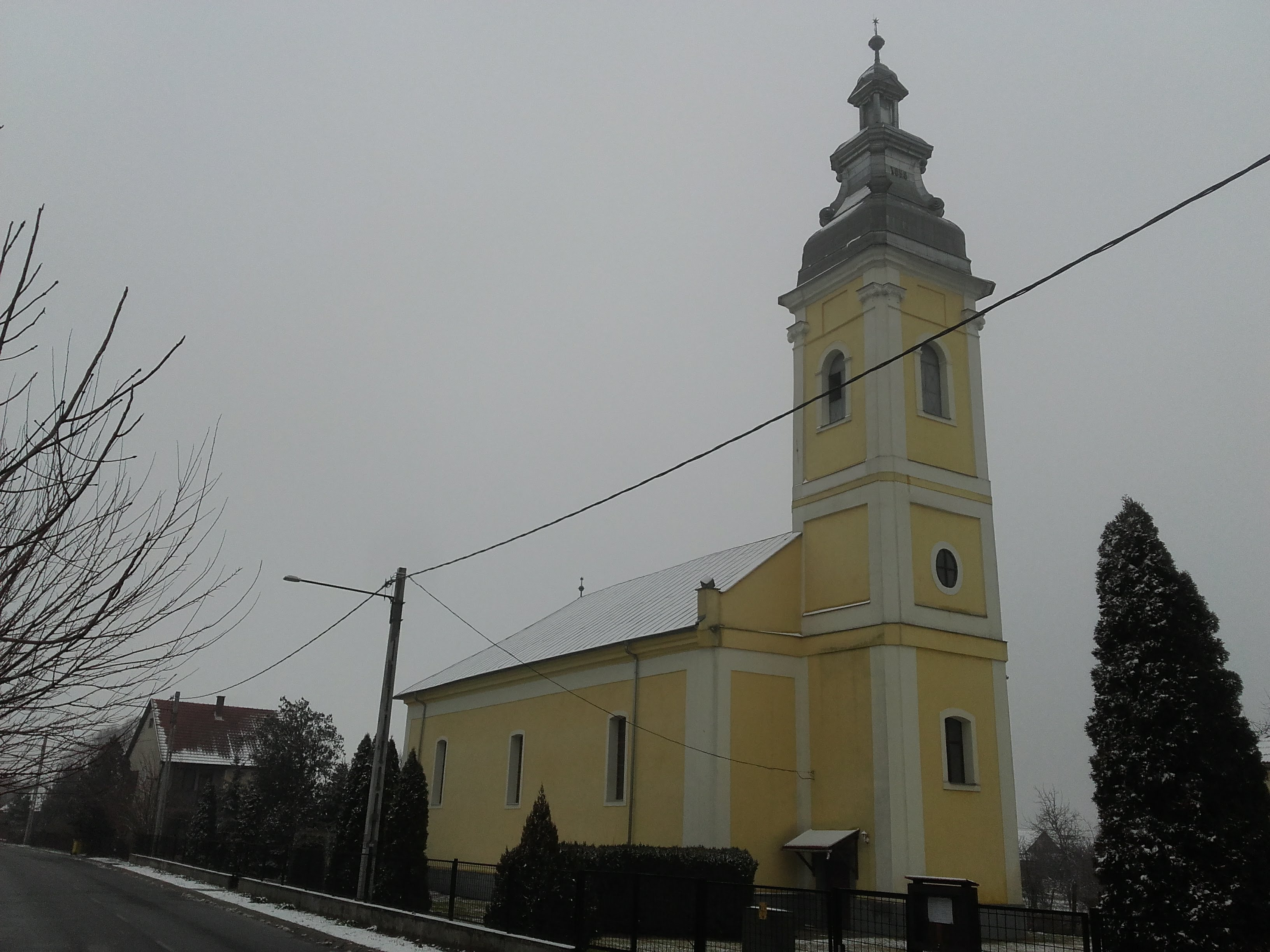 The Baroque (built in 1806) Reformed church of Bodroghalász, Hungary This is a photo of a monument in Hungary. Identifier: 3125